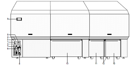 Makina per shtypje